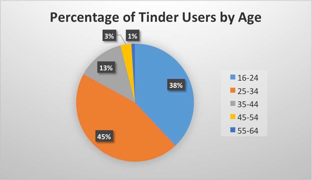 Percentage of Tinder Users by Age